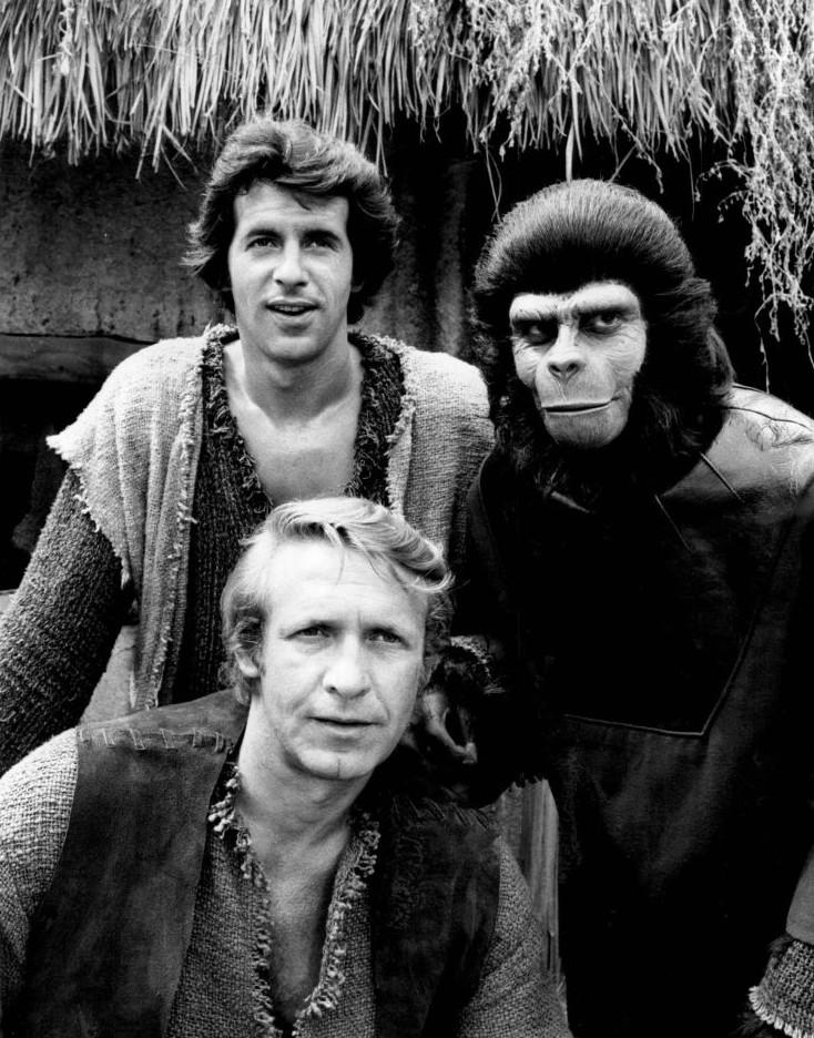 Cast photo from the short-lived television program Planet of the Apes. From left: Ron Harper as astronaut Alan Virdon, Roddy McDowell as Galen, the chimpanzee, and James Naughton as astronaut Peter Burke.